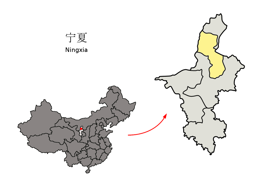 Location of Yinchuan Prefecture (yellow) within Ningxia Autonomous Region of China Map drawn in november 2007 using various sources, mainly : Ningxia Autonomous Region administrative regions GIS data: 1:1M, County level, 1990 Ningxia Counties map from This map includes Zhongwei jurisdiction not shown on sources, and the related changes in Guyuan and Wuzhong jurisdictions borders.